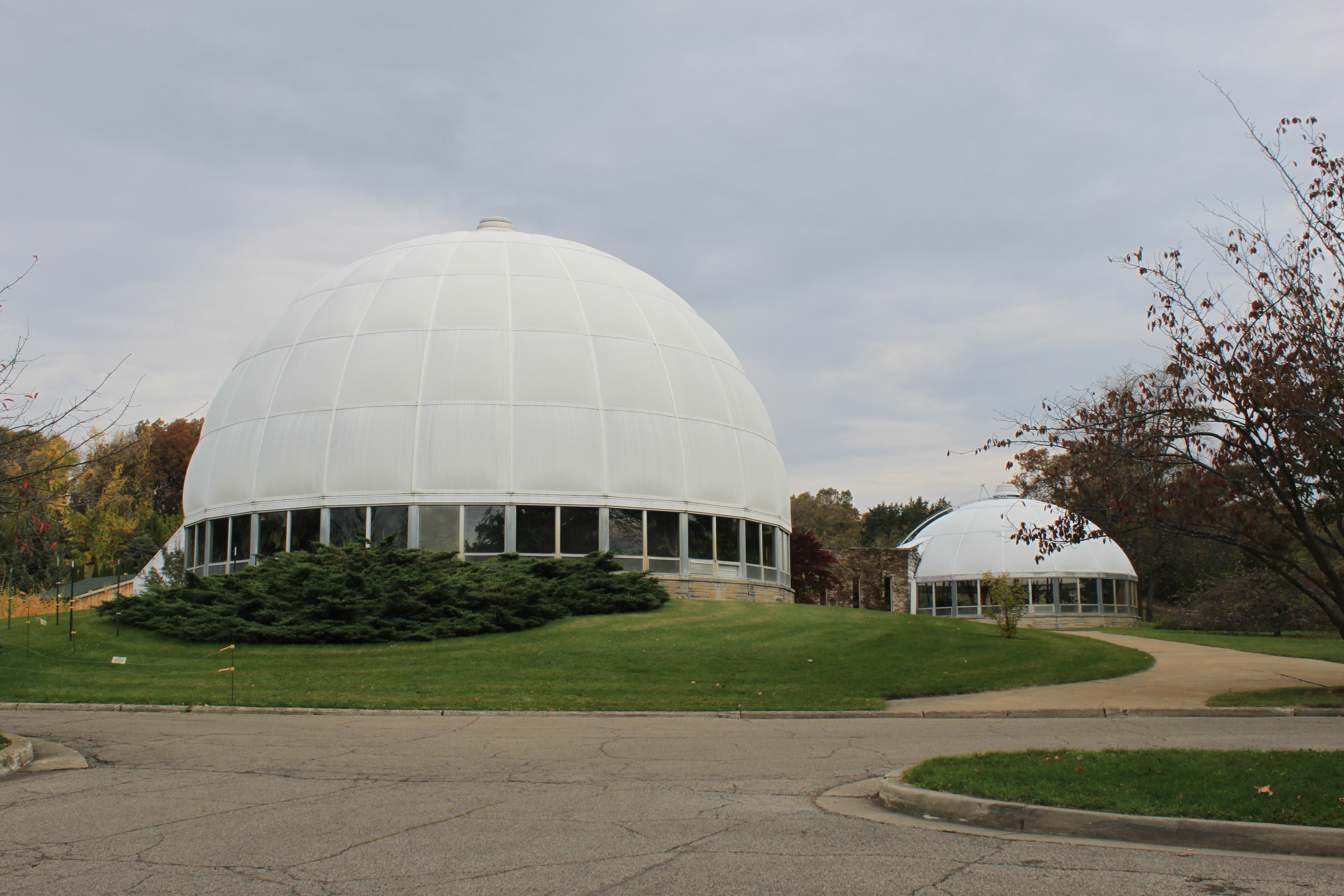 Hidden Lake Gardens Plant Conservatory, Tipton, Michigan